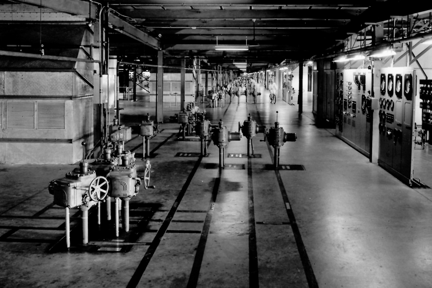 K-25 operating level. Note operator on a bicycle.